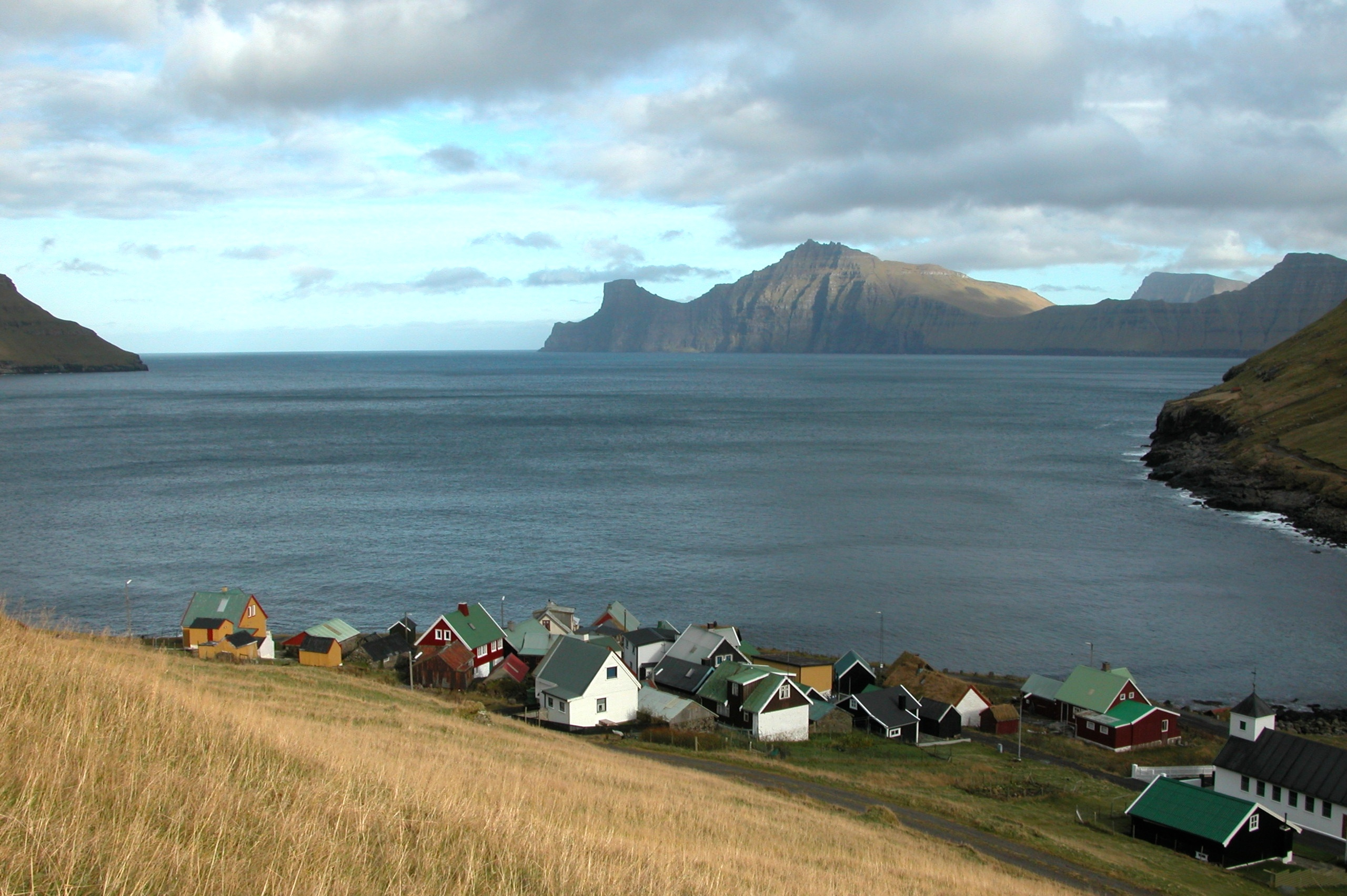 Elduvík in Eysturoy, Faroe Islands. The Island of Kalsoy in the background.